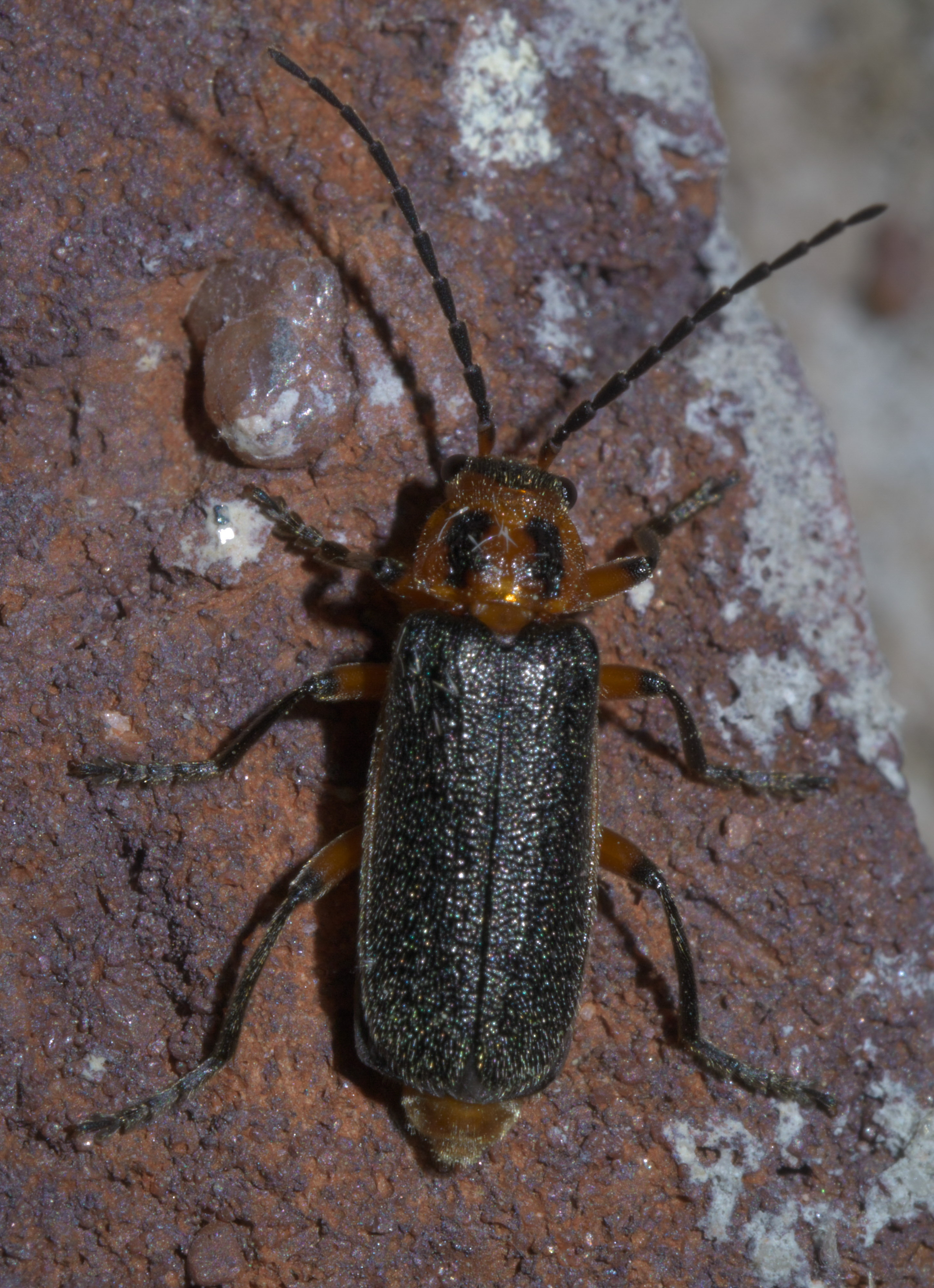 Atalantycha bilineata, Family: Soldier Beetles, Size: 8.2 mm, ID Confidence: 88